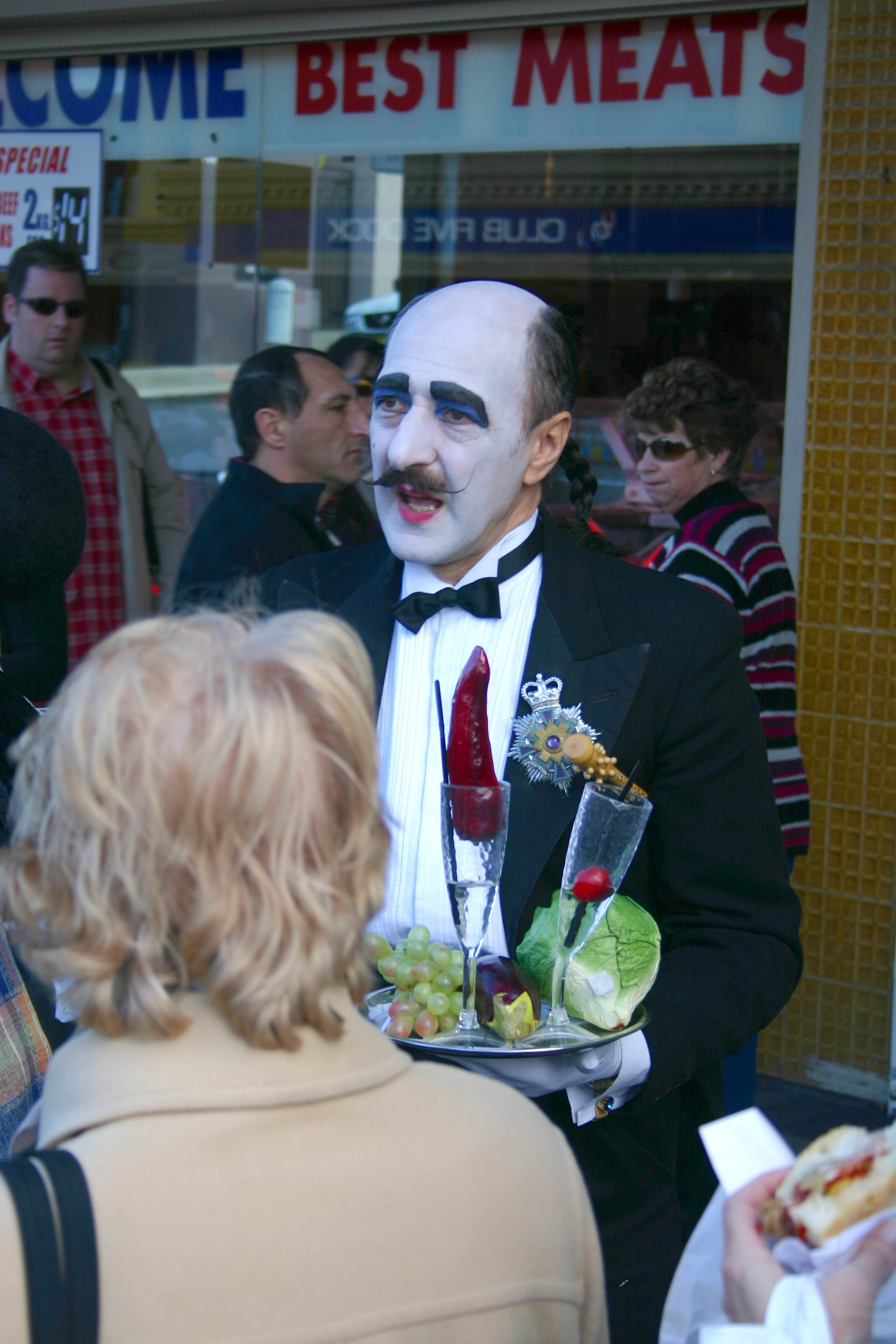 Ferrogosto.